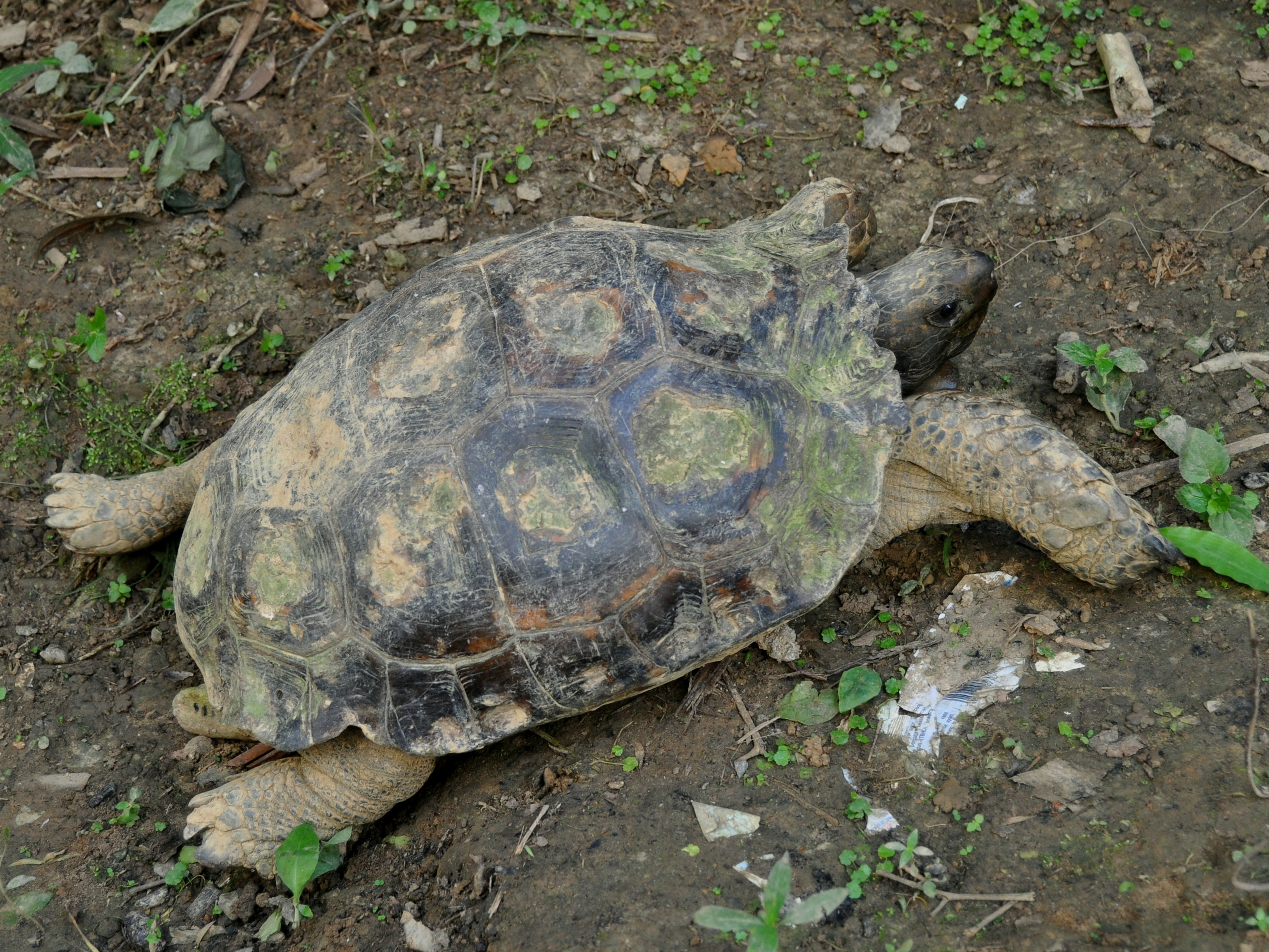 Manouria e. emys, from Upper Pawan River, Ketapang, West Kalimantan, Indonesia. Carapace length ca 40 x 30 cm, plastron 38 x 30 cm.